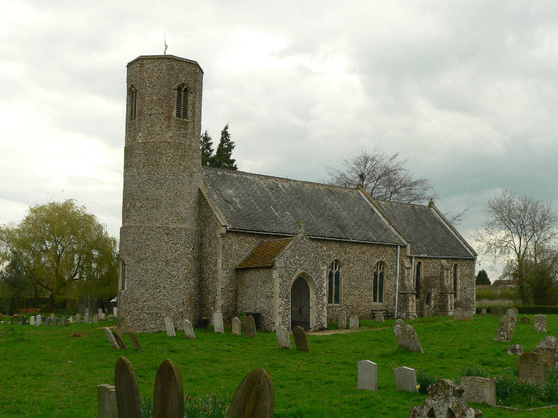 Rushall St Mary the Virgin